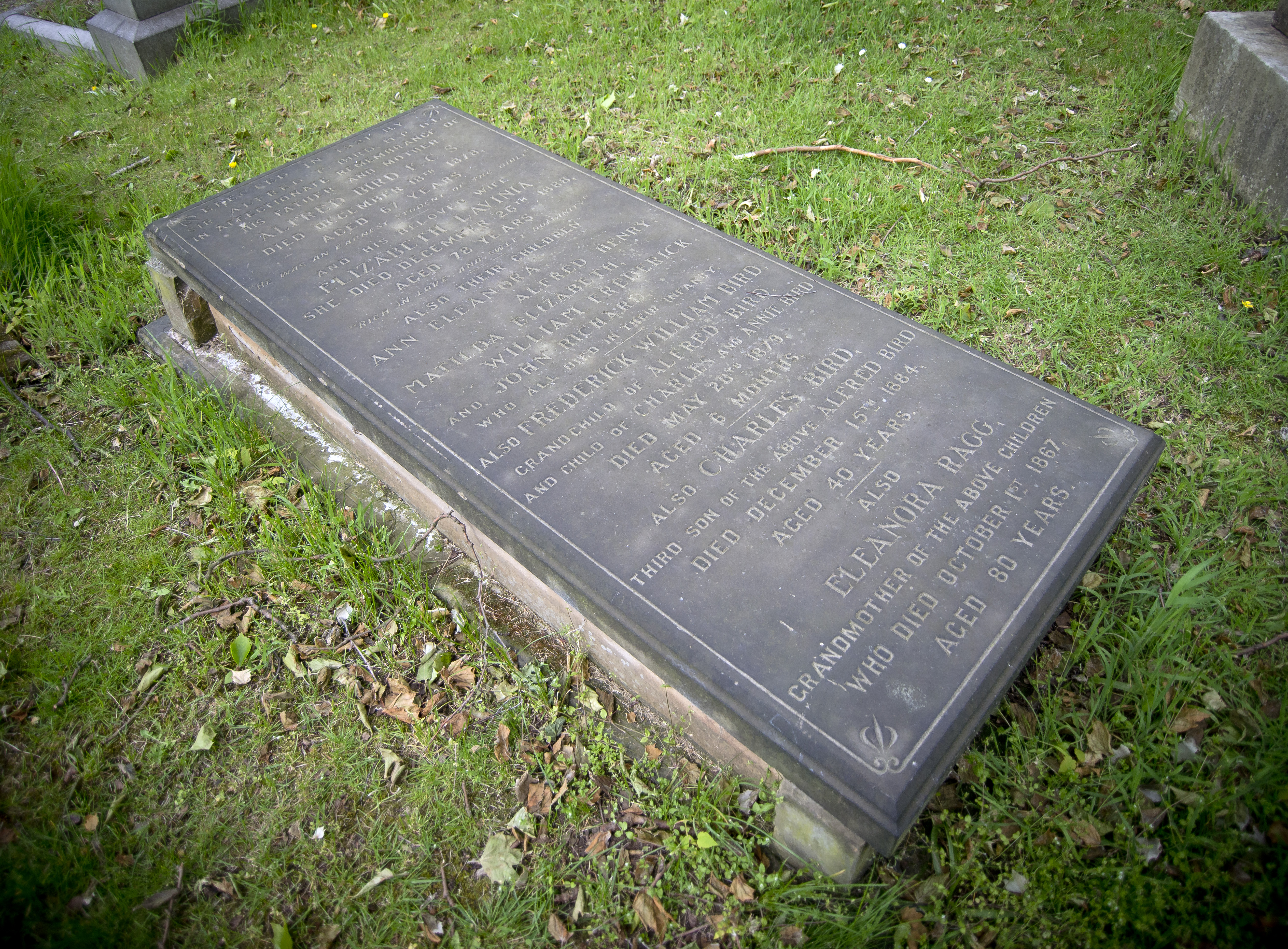 The memorial stone of Alfred Bird at Key Hill Cemetery, Birmingham, UK